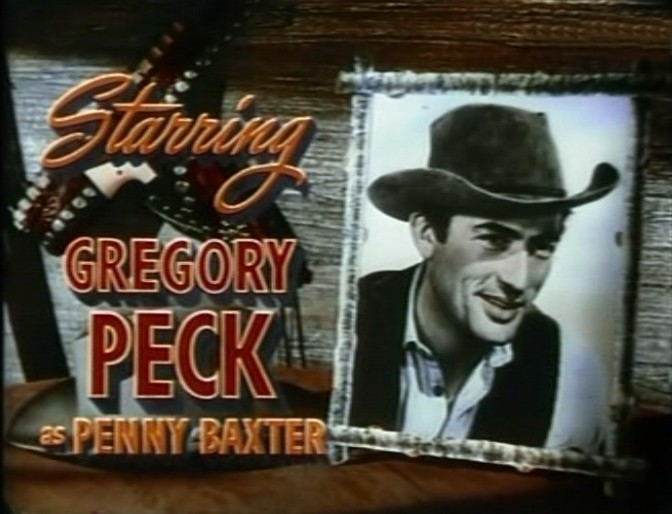 Cropped screenshot of Gregory Peck from the trailer for the film The Yearling.